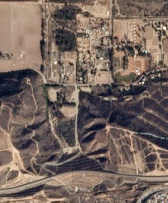 Tijuana, Mexico November 11, 2016 To the north, parkland separates the subdivisions of San Diego County, California from the manmade US/Mexico Border. To the south, the gridded residential streets of Tijuana’s Libertad and Zona Norte neighborhoods abut the common boundary. Smuggler's Gulch, cropped from San Diego and Tijuana by Planet Labs